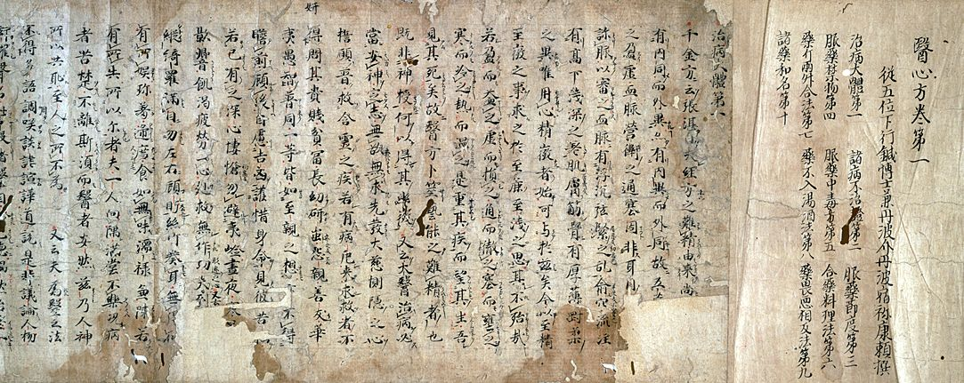 Ishinpō, Nakarai edition